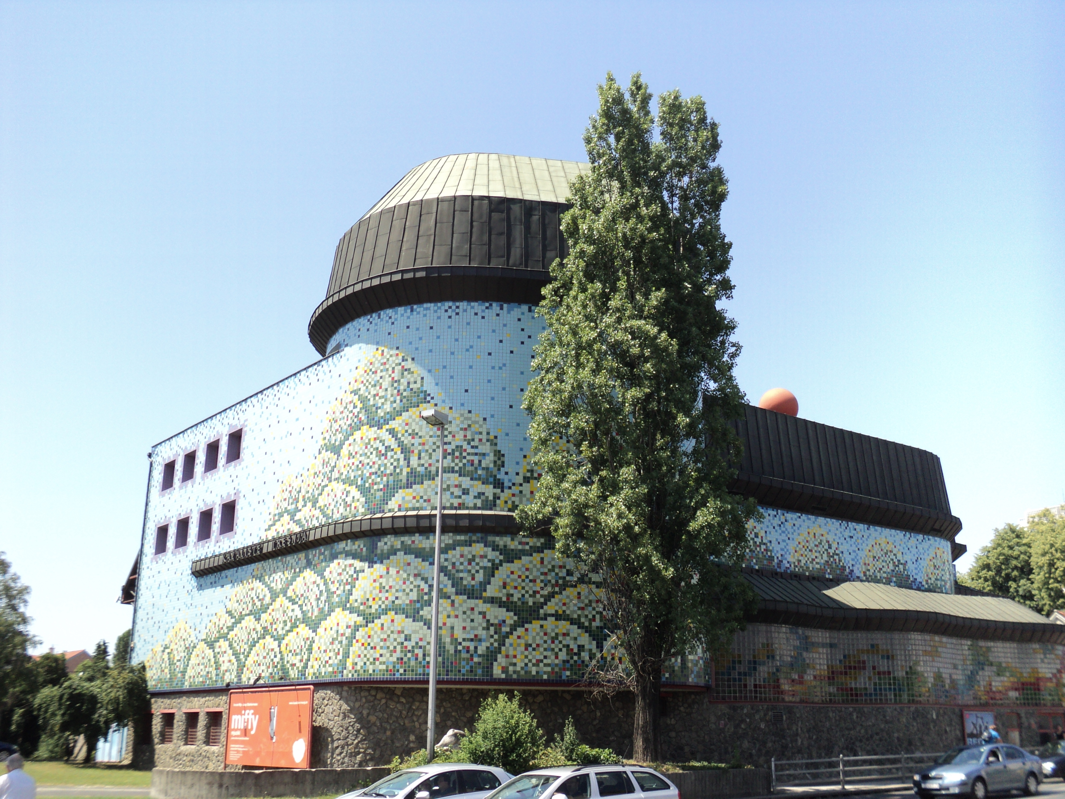 "Trešnja" theater in the south of Trešnjevka, Zagreb.